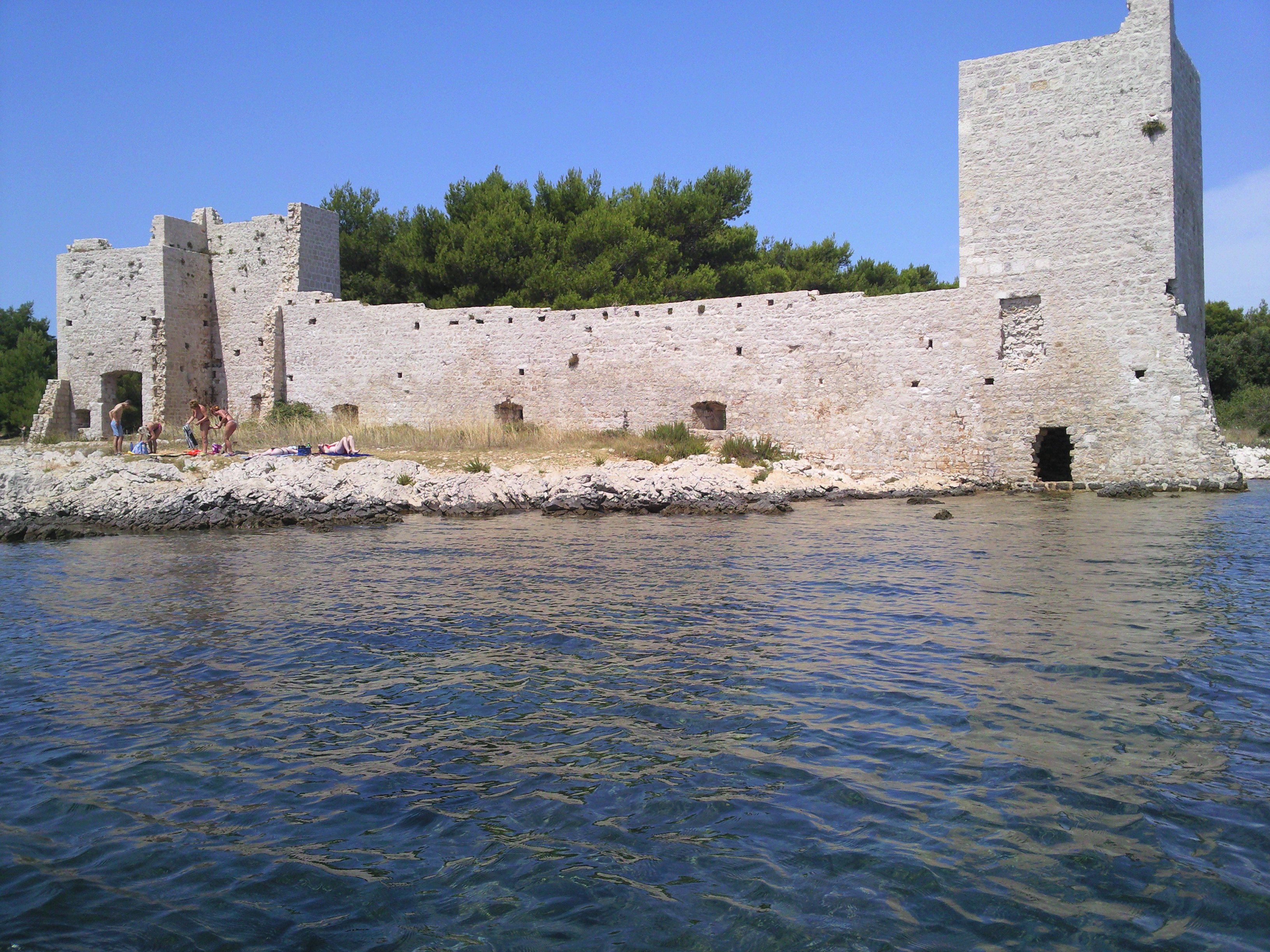 A castle on the Croatian island Vir.